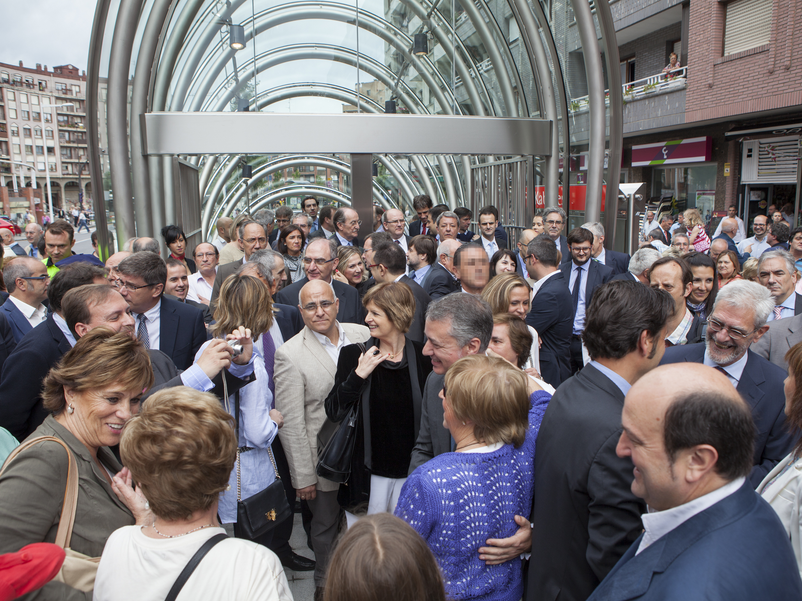 Kabiezes metro station inauguration